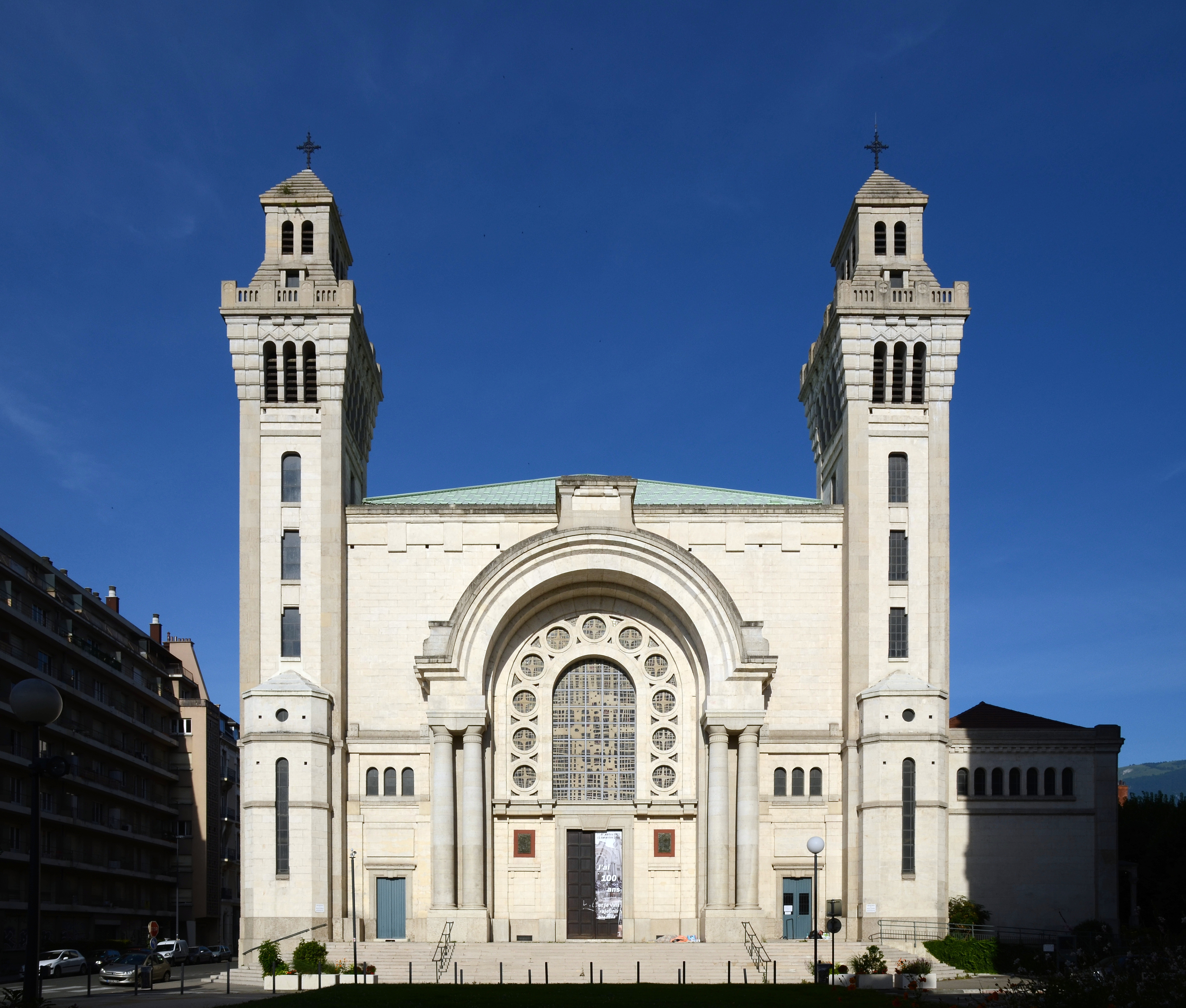 Basilique Sacré coeur de Grenoble, France.